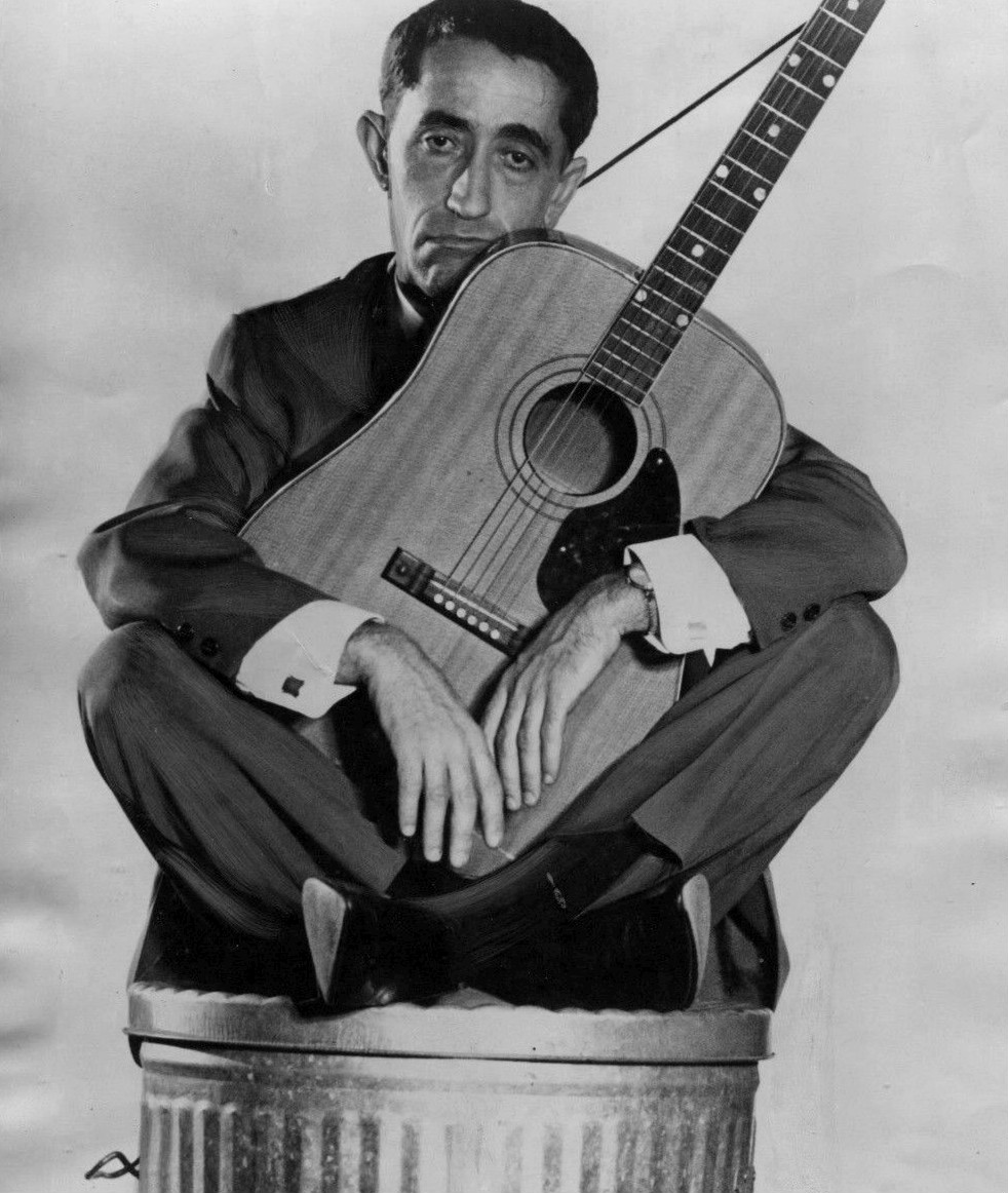 Photo of Pat Paulsen before he was discovered by the Smothers Brothers. The item has no copyright markings on it as can be seen in the links above.